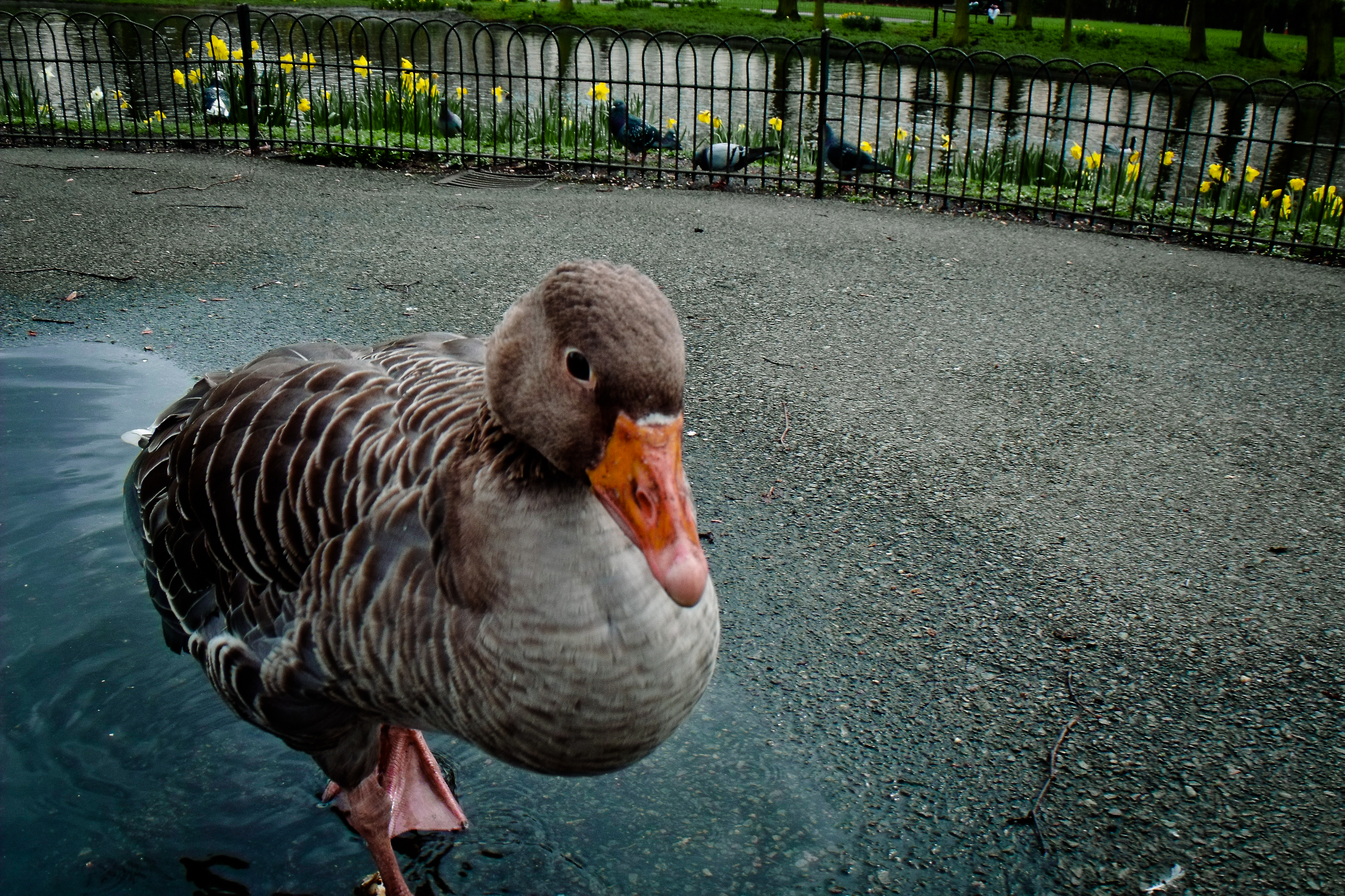 Greylag